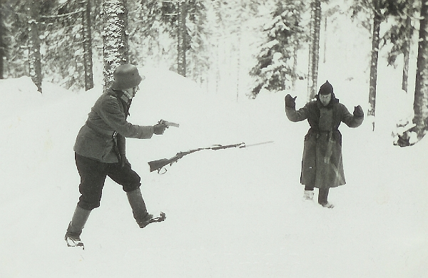 Probably a staged situation: An "enemy" surrenders. From the Finnish Continuation War.